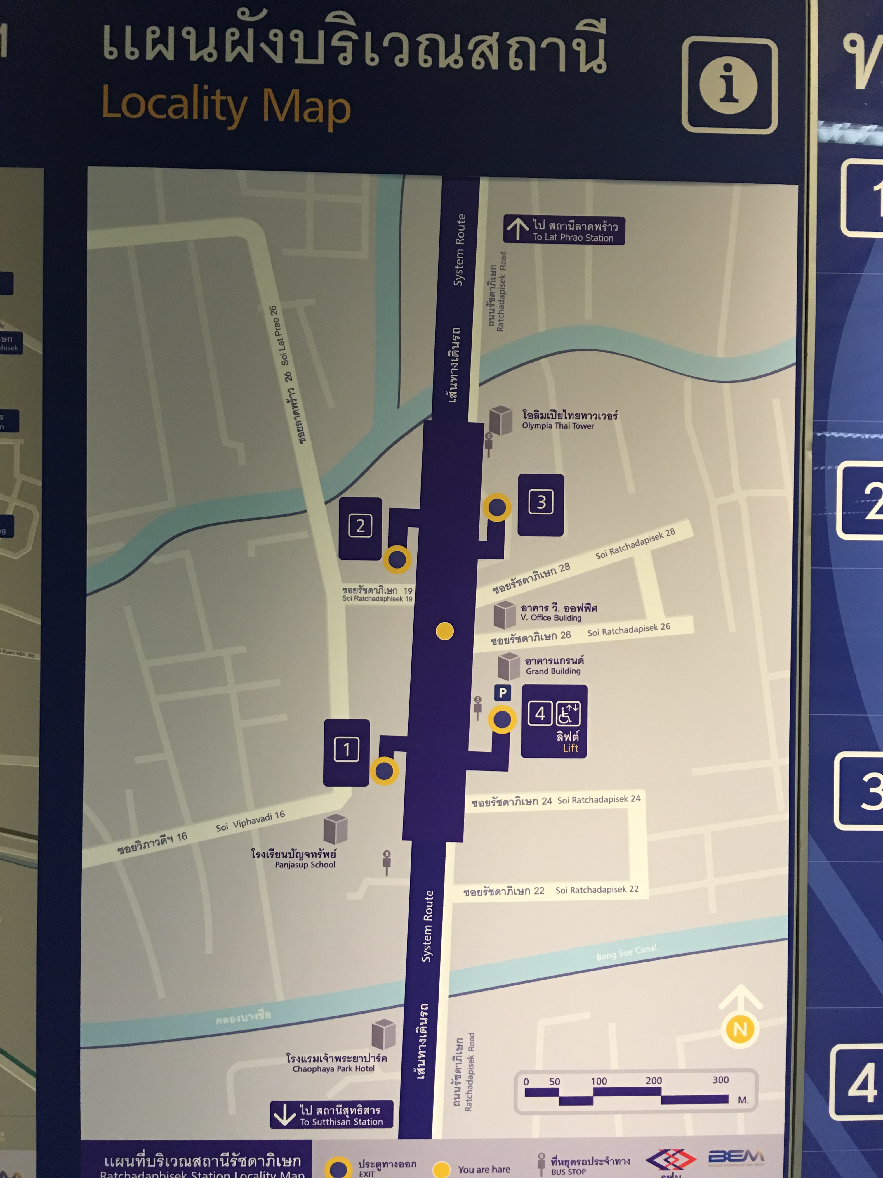 The locality map of Ratchadaphisek Station